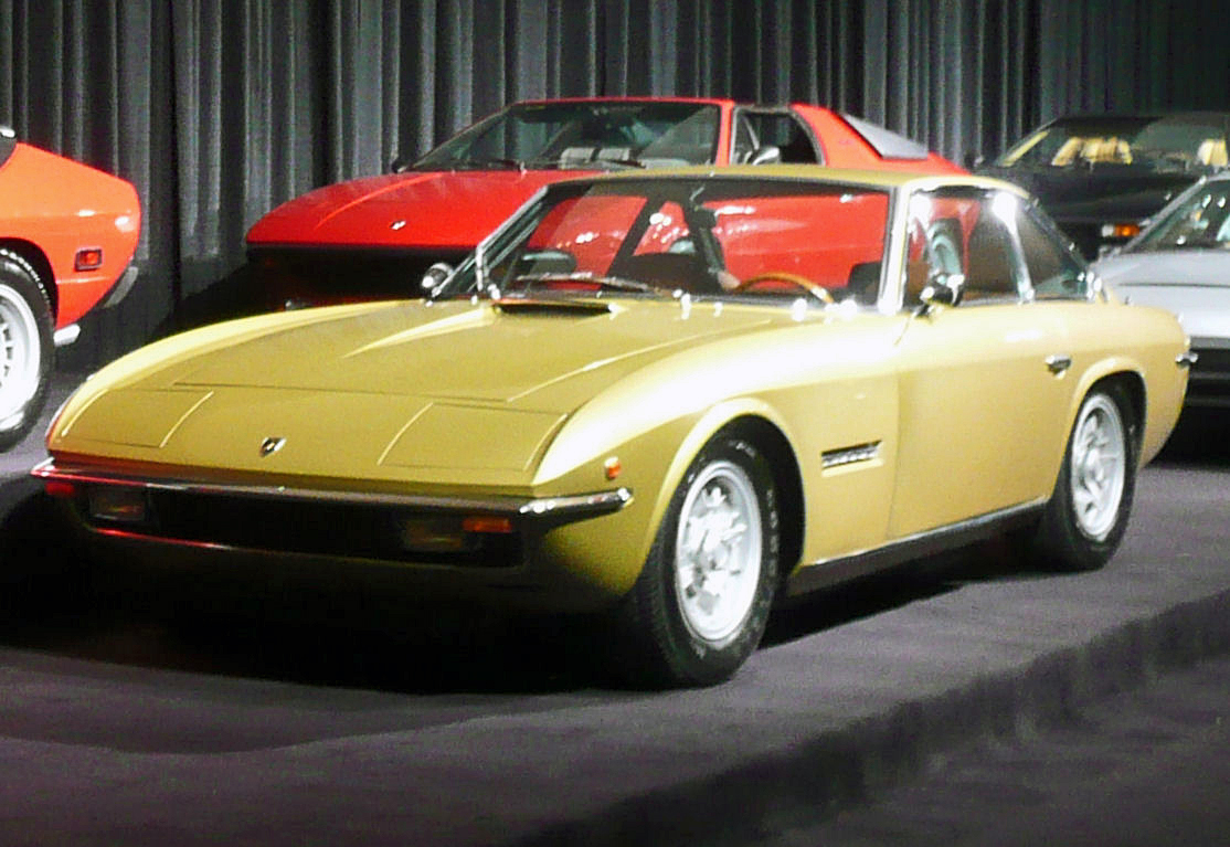 Lamborghini Islero S at Toronto Autoshow 2008, Canada